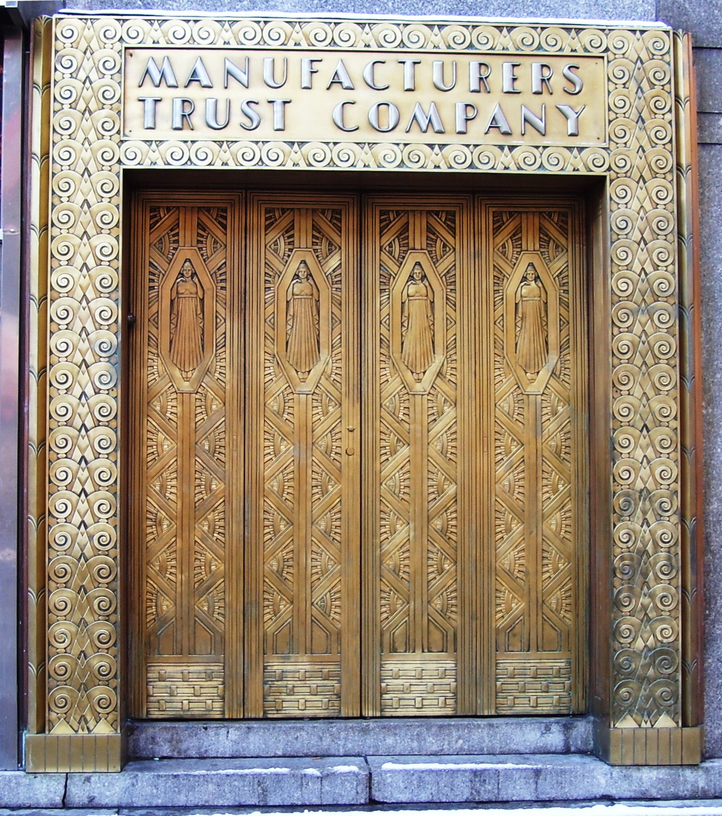 A brass door, formerly the entrance to a bank, in the New Yorker Hotel on Eighth Avenue between 34th and 35th Streets in midtown Manhattan, New York City.